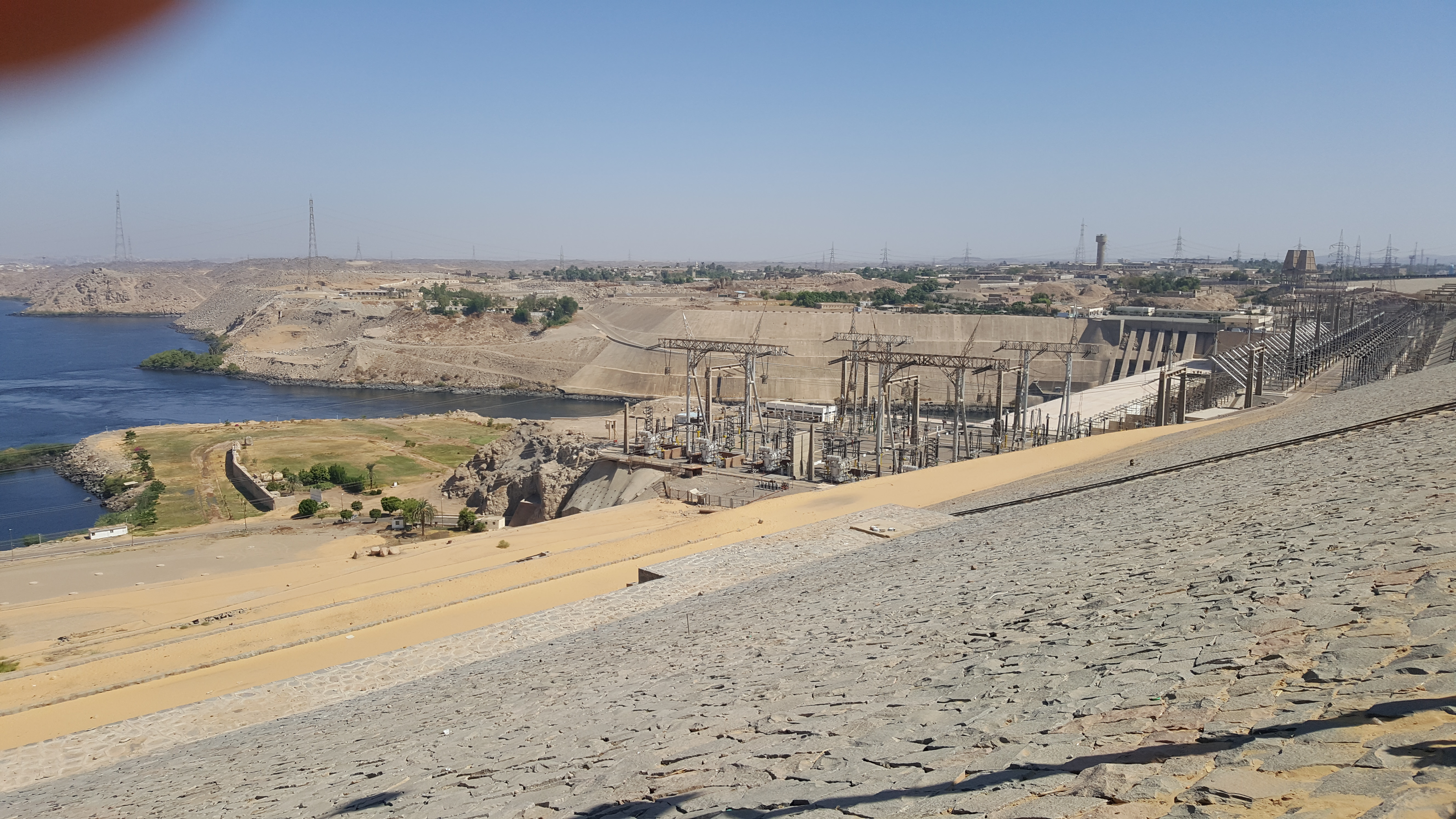 Aswan High Dam